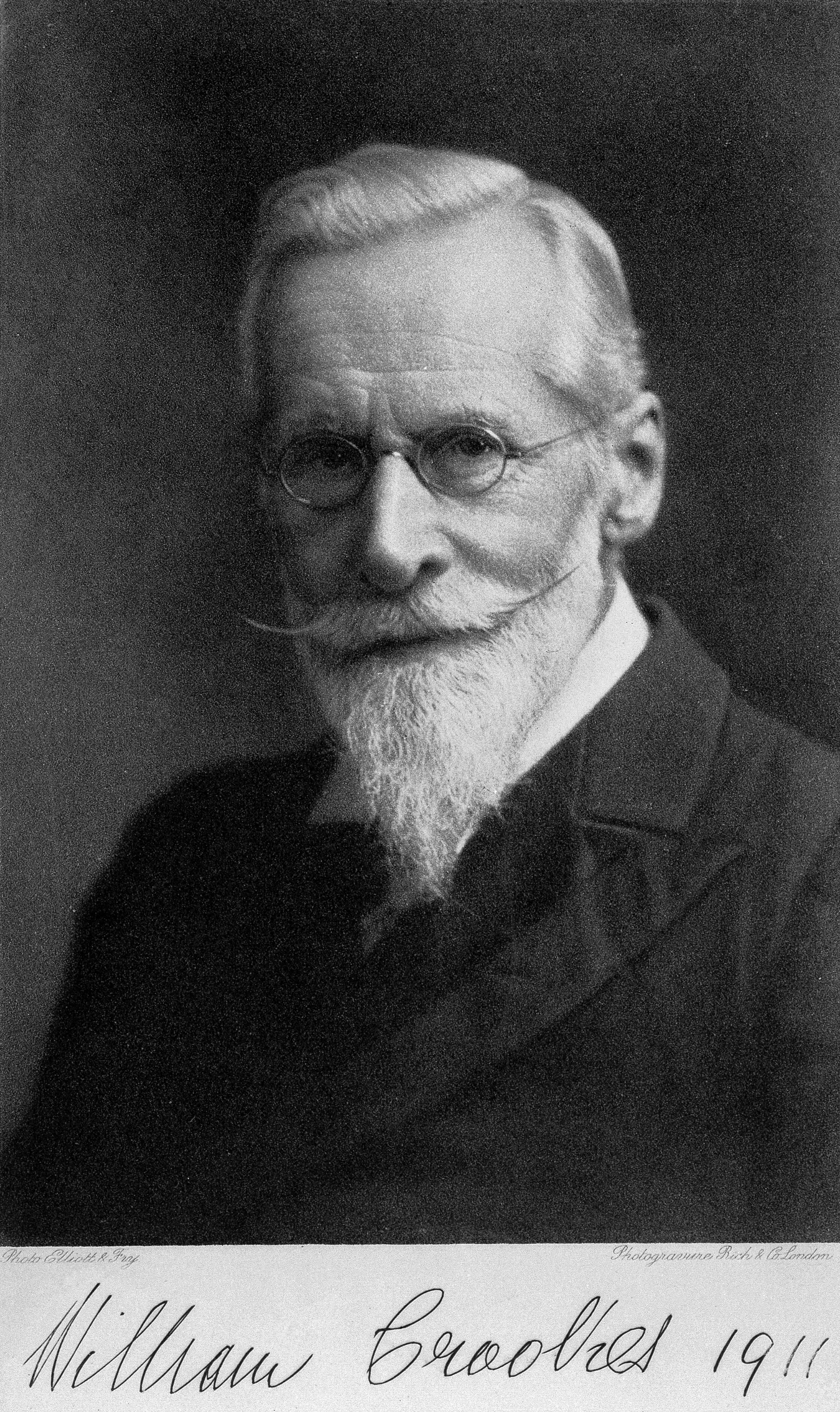 William Crookes (1832–1919)